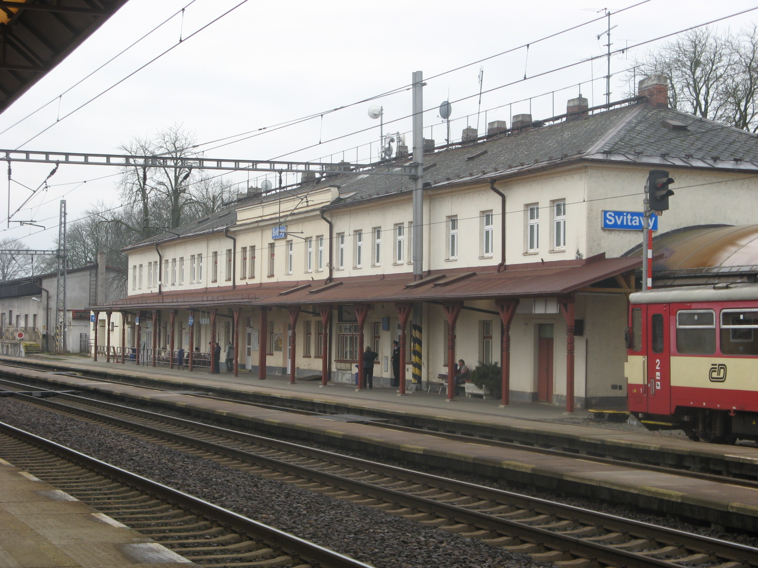 Train station Svitavy, Czech Republic